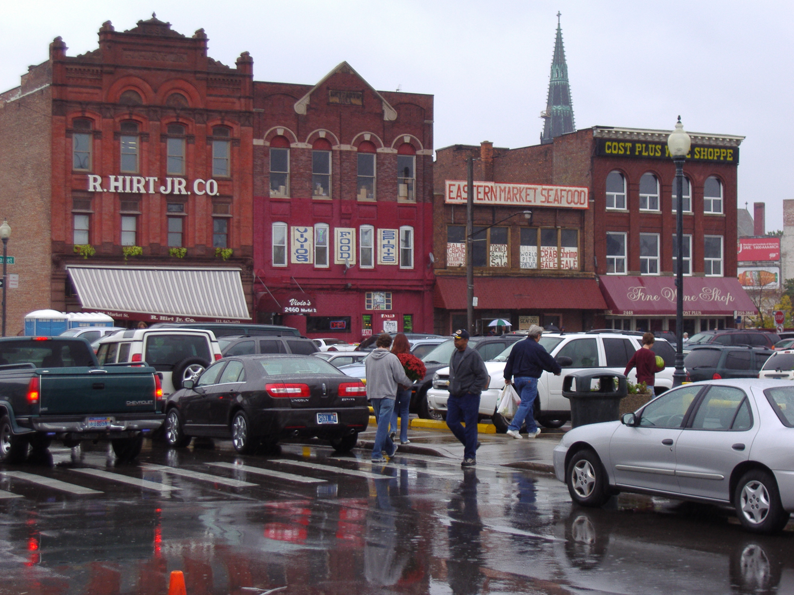 Storefronts in the Eastern Market district of Detroit on a rainy fall afternoon. Rudolf Hirt Jr., a Swiss immigrant, began the business in 1893. The famed R. Hirt Jr. store in Eastern Market will close by the end of 2011 after more than 120 years in business, but a member of the family that has run the store for generations said he will reopen it under a new name almost immediately. 11-24-2011 Own work 9-30-2006